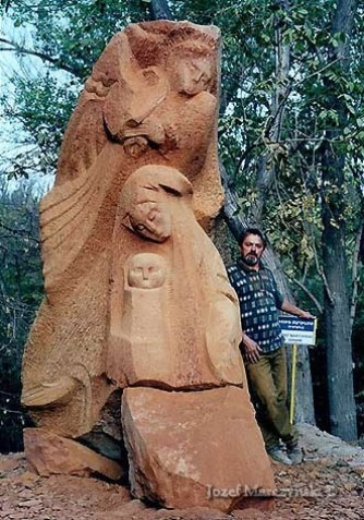 Józef Marczyński, Birth of Christ (tuff; h = 315cm; Erevan, Armenia)